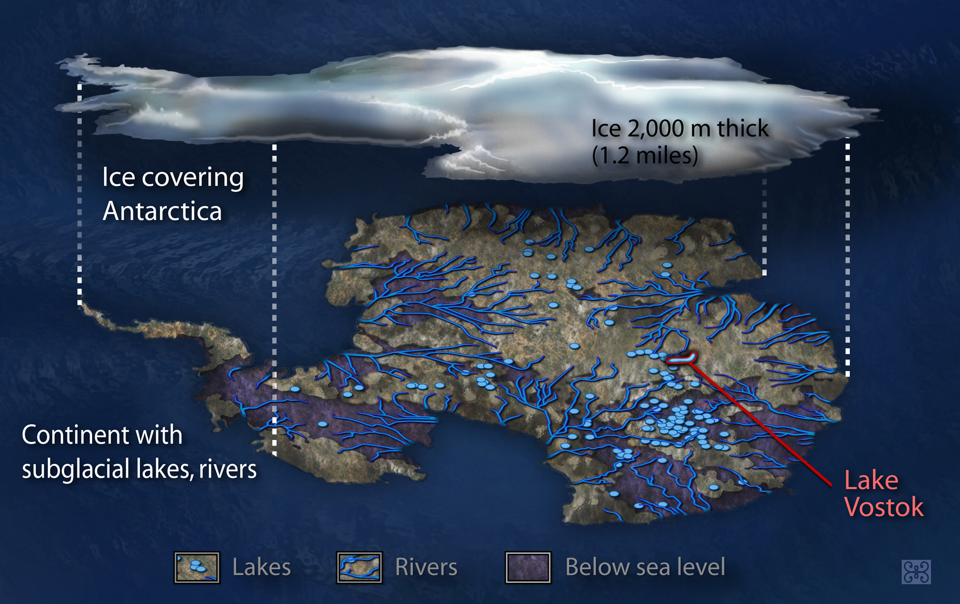 An artist's representation of the Antarctic aquatic system scientists believe is buried beneath the Antarctic ice sheet.